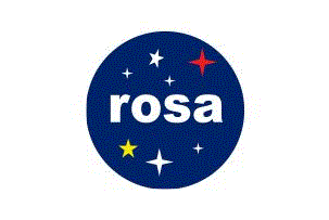 Romanian Space Agency (ROSA/ASR)